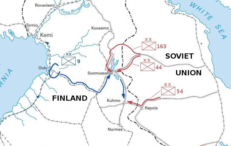 Winter War: Kuhmo Front